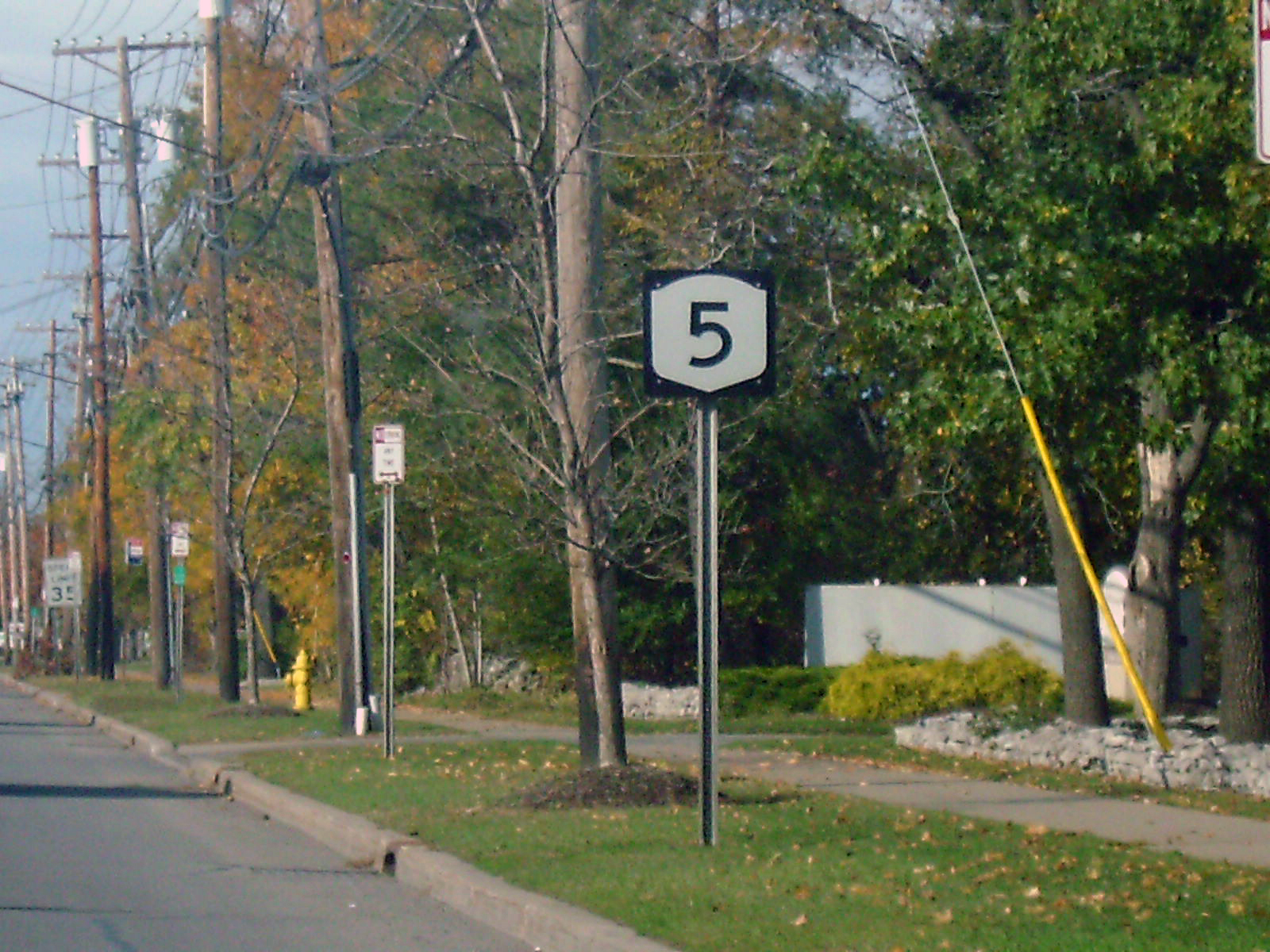 A westbound New York State Route 5 reassurance shield in Williamsville.